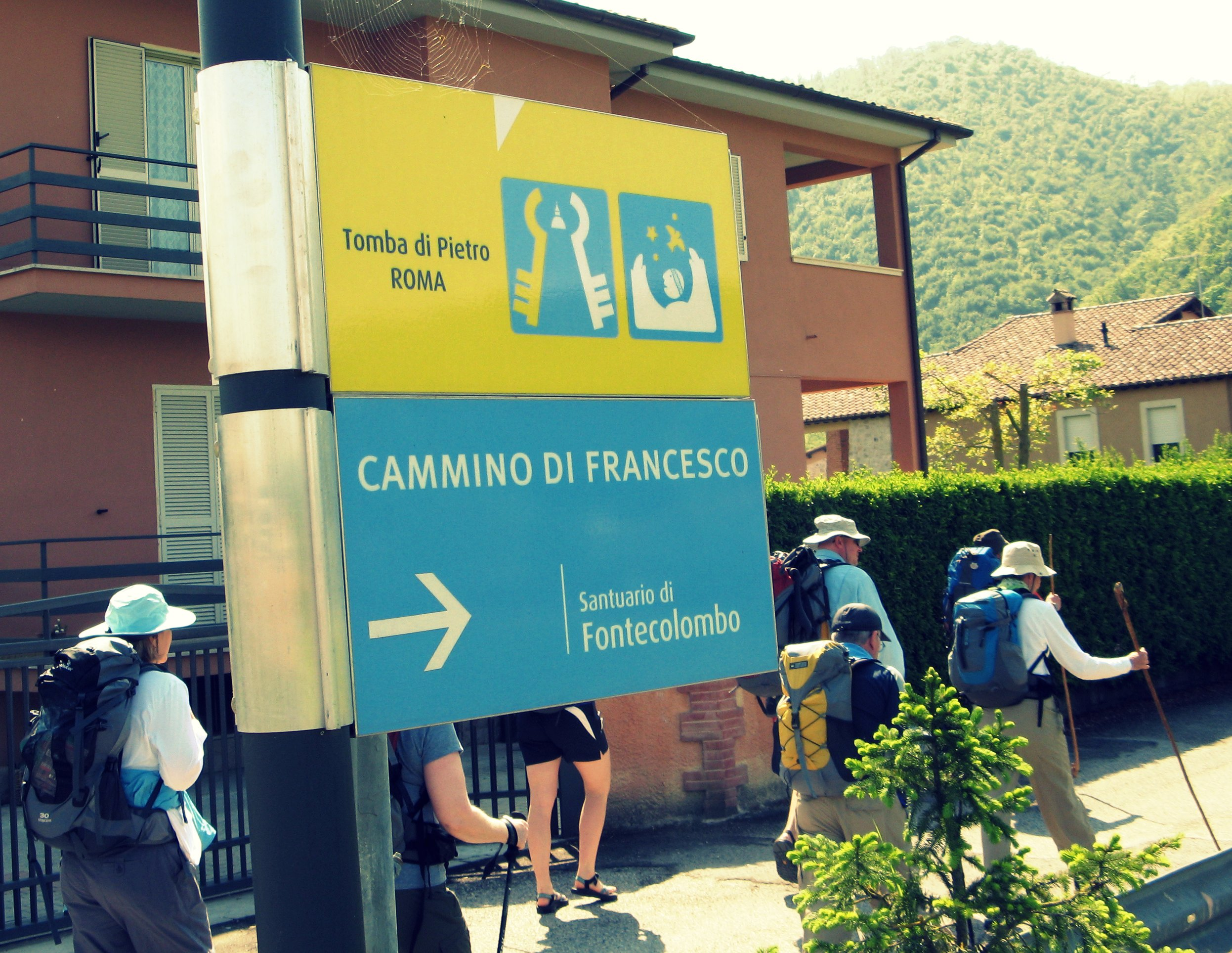 Cammino di Francesco in the Rieti Valley (Province of Rieti, Lazio, Italy)